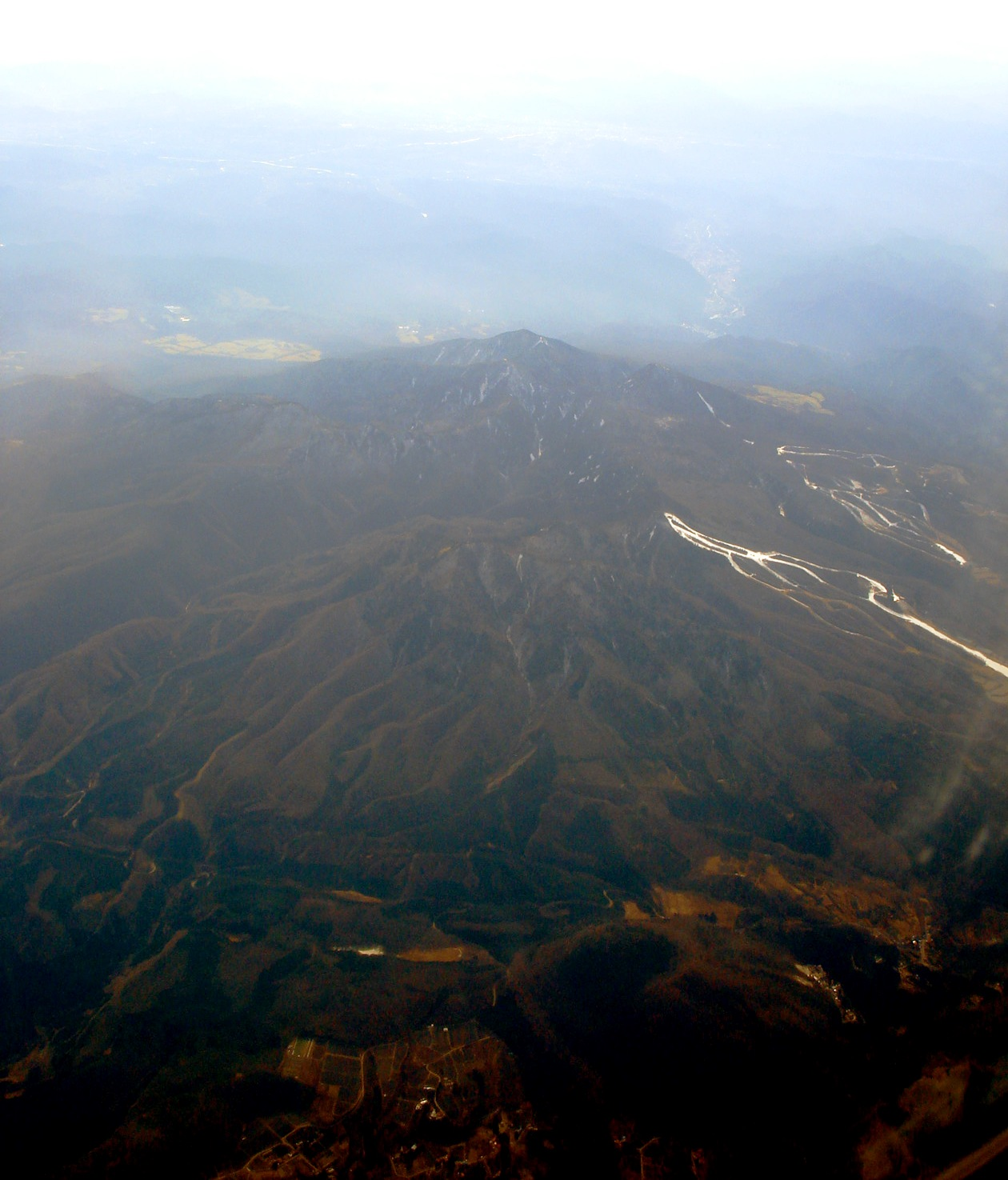 A mount in Tochigi prefecture